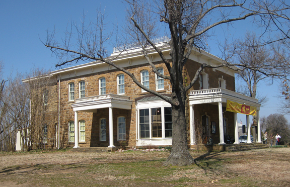 The Five Civilized Tribes Museum — on Honor Heights Hill, in Muskogee, Oklahoma. A Native American museum of art, history and culture of the Five Civilized Tribes and the Trail of Tears — the Cherokee, Chickasaw, Choctaw, Muscogee Creek, and Seminole tribes.